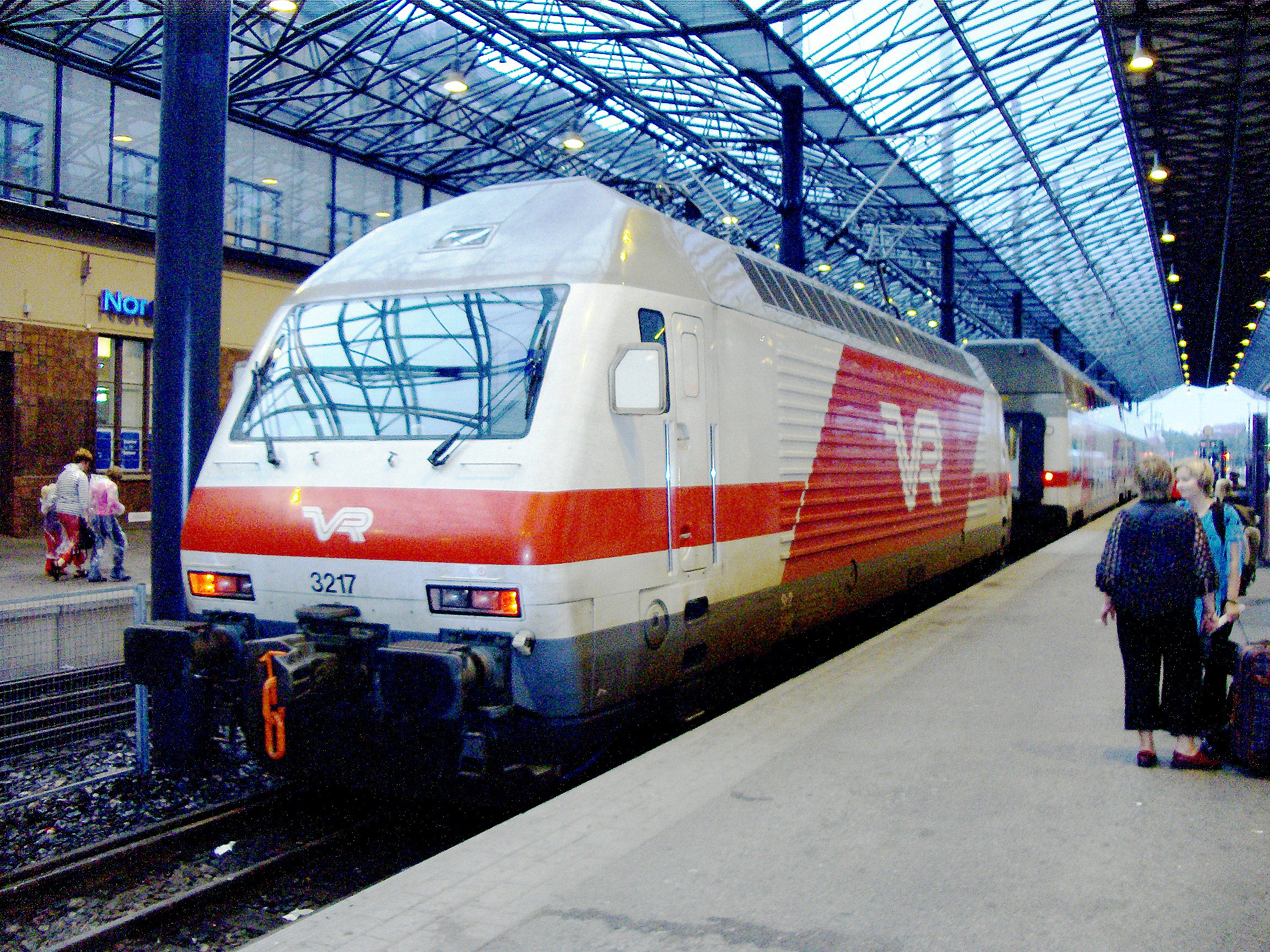 Finnish Sr2 -locomotive.